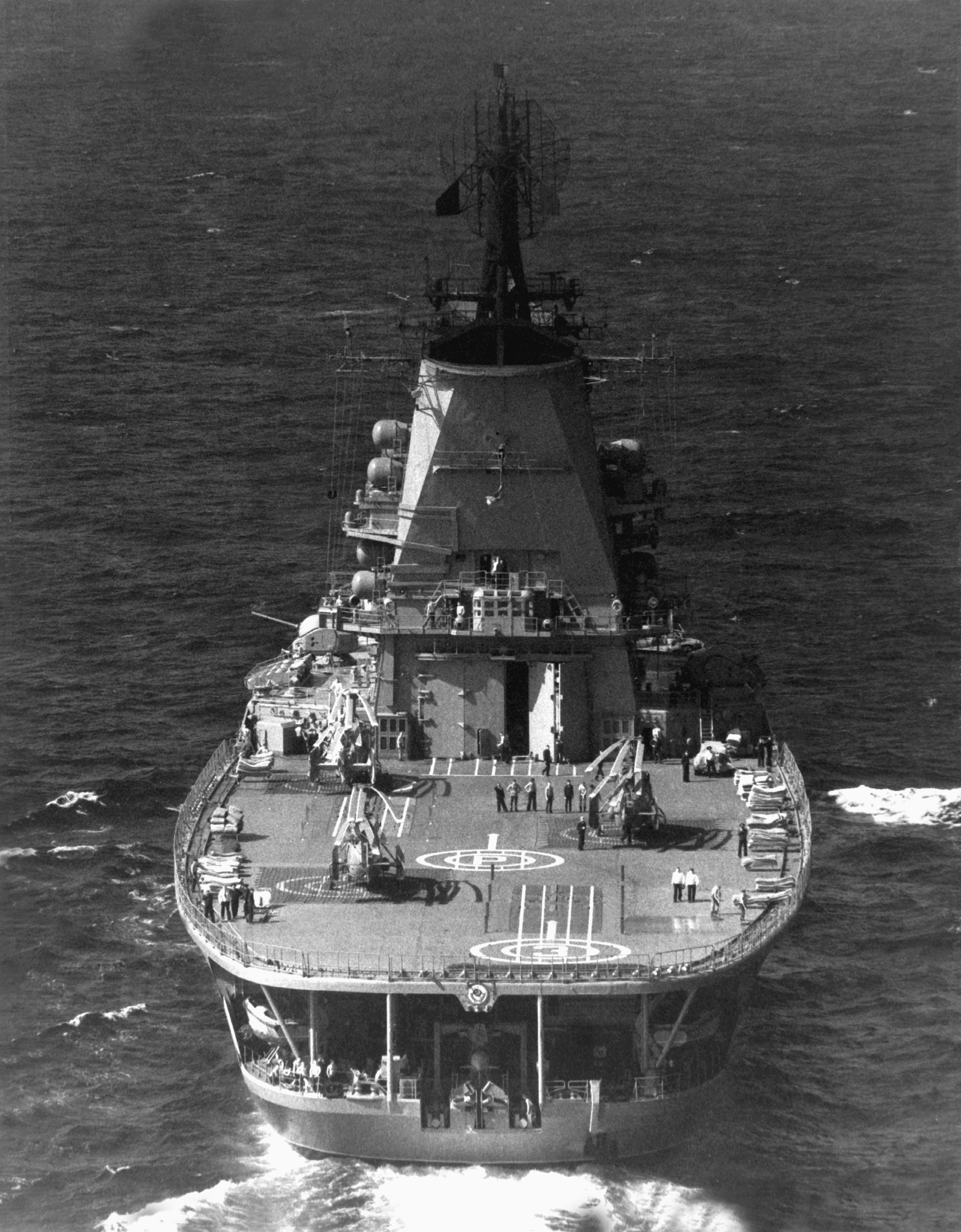 A Russian Moskva class helecopter carrier.